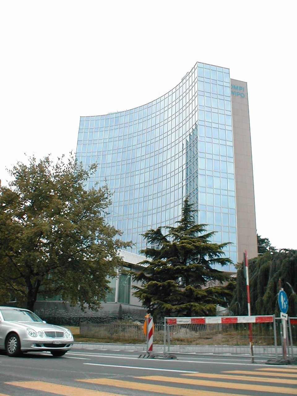 World Intellectual Property Organization (WIPO) Headquarters (the Árpád Bogsch Building also known as the Main Building) in Geneva, Switzerland